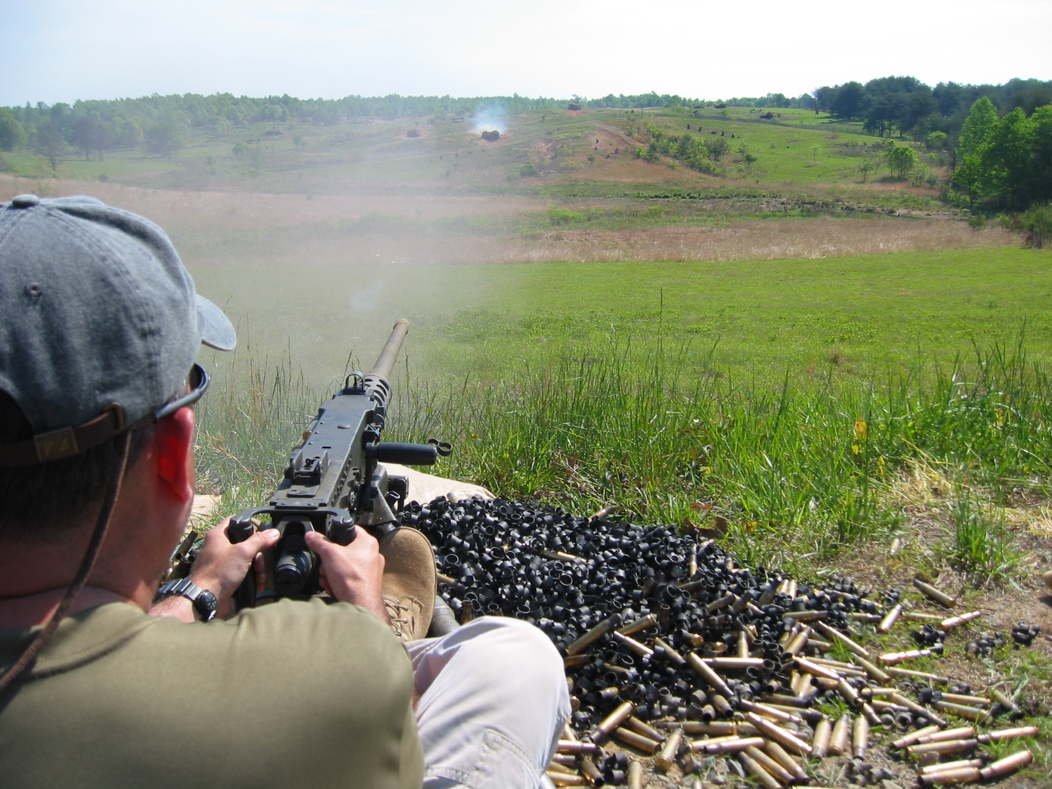 DSS Agent on the Range with the M2 .50 caliber machine gun